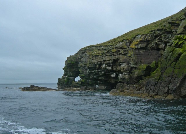 Geo of Ork, the northern tip of the island of Shapinsay, Orkney Islands. This is the northern tip of Shapinsay at high tide. Note the natural arch in the rock formation. Photographer is at sea within the subject grid square.